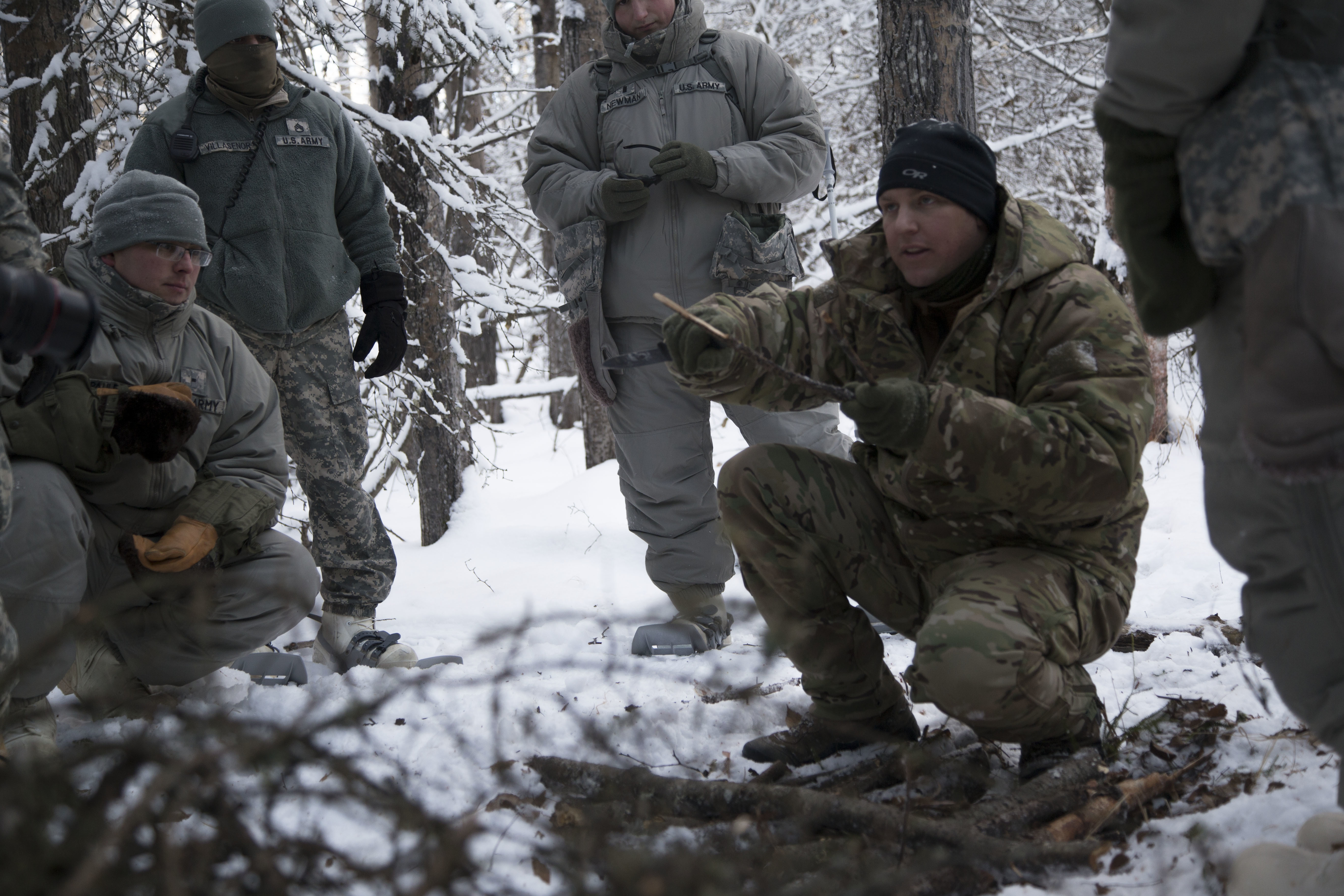 Tech. Sgt. Benjamin Westveer, a Survival, Evasion, Resistance and Escape instructor for the 212th Rescue Squadron, Alaska Air National Guard, conducts a cold-weather preparedness class during the Alaska Army National Guard's January drill weekend on Joint Base Elmendorf-Richardson Jan. 25. The single-digit temperatures and snow provided the AKARNG Soldiers ample opportunity for realistic arctic readiness training scenarios. (U.S. Army National Guard Photo by Sgt. Marisa Lindsay)